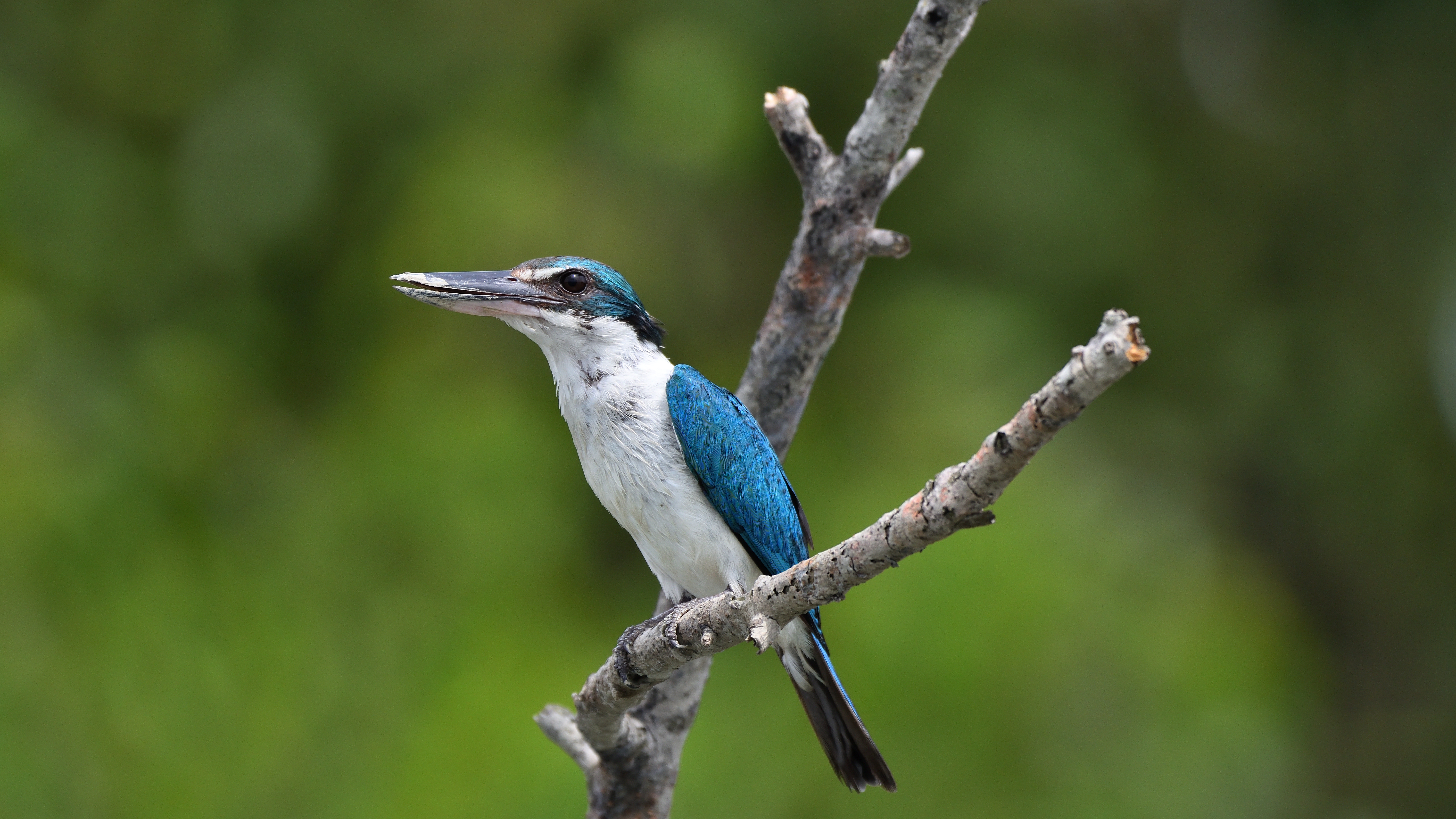 Collared kingfisher at Sunderbans, West Bengal